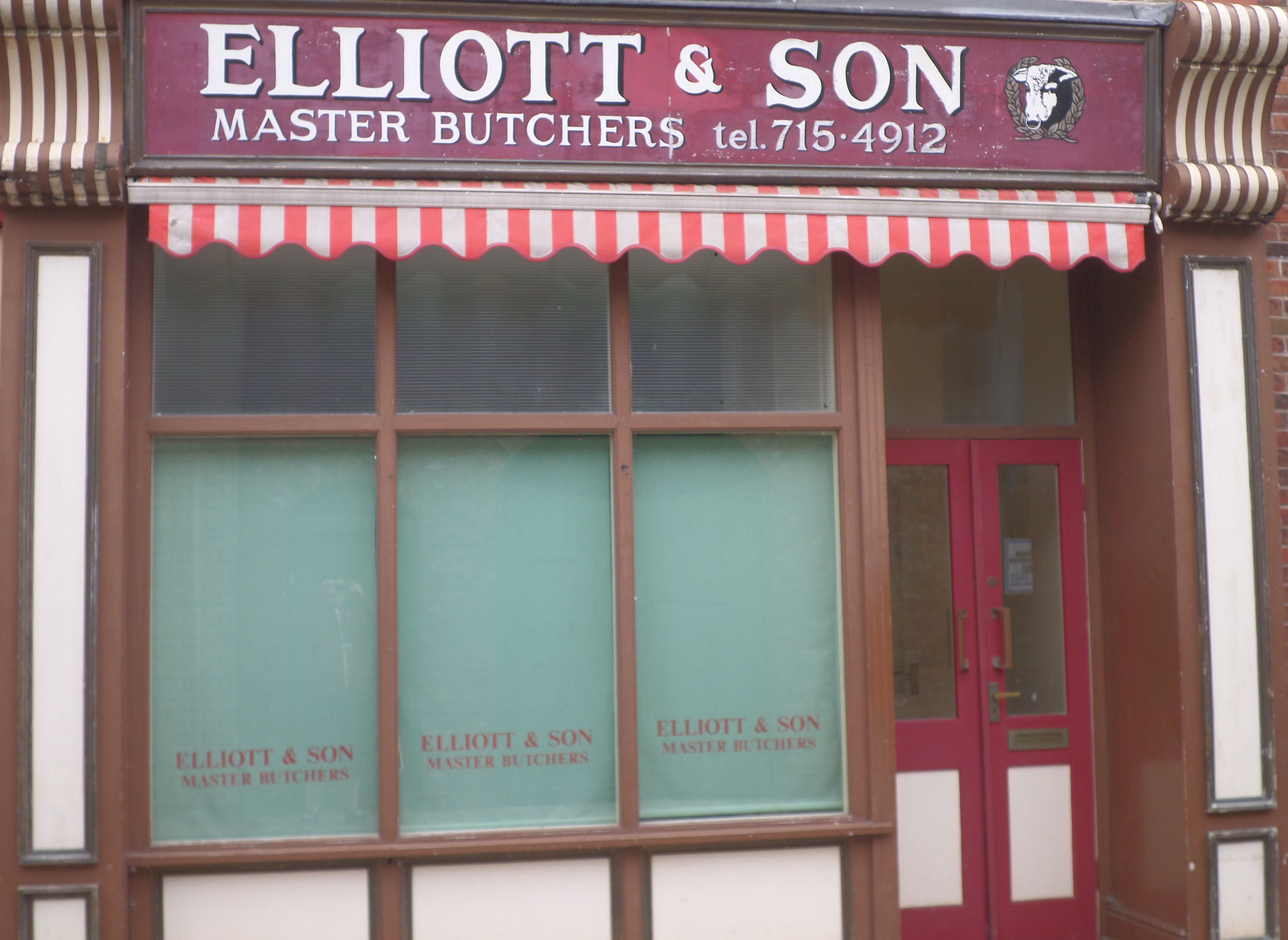 An image of the fictional former butcher shop, Elliott and Son Master Butchers, from the fictional soap opera, Coronation Street. The image was taken from the Coronation Street Tour.